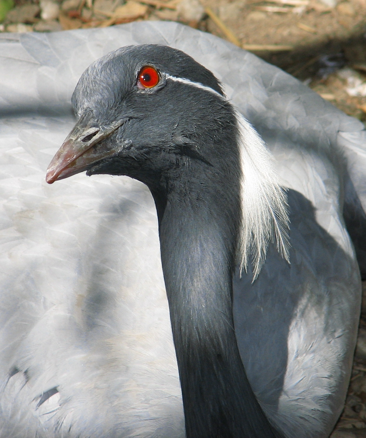 Demoiselle Crane (Anthropoides virgo) at the Louisville Zoo